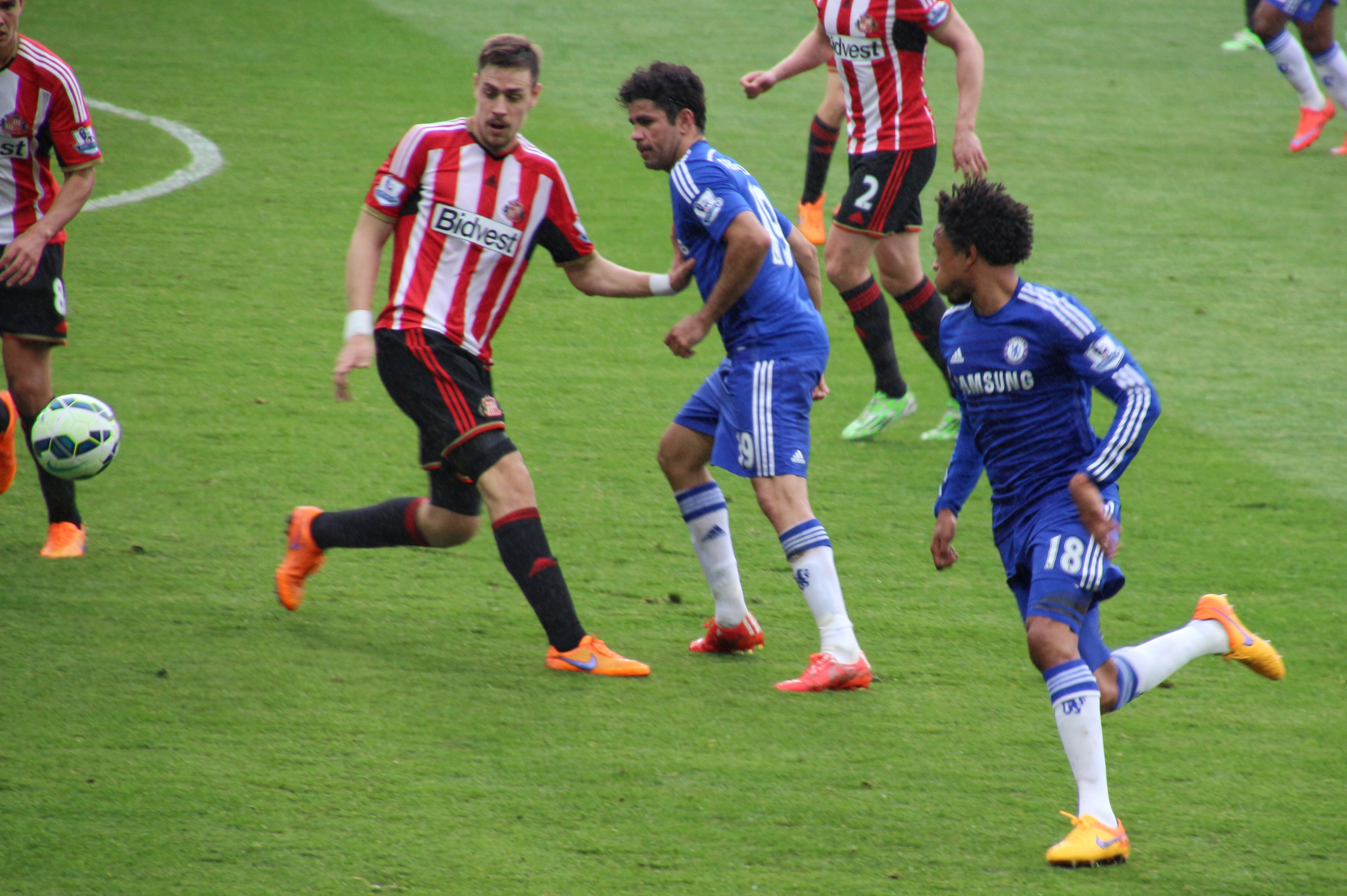 Chelsea 3 Sunderland 1 Champions!